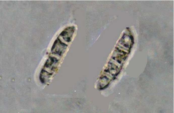 Arthonia caesia (Flotow) Körber, 1861 Photograph of two spores (3-septate, 4-celled) from Arthonia caesia taken through a compound microscope, x 1000. (spores measure 21 x 5 microns) This specimen of Arthonia caesia was growing on the bark of a dying Norway Maple (Acer platanoides L.) in a front yard along Ridge Road in western Baltimore County, Maryland, USA. Collected and identified by E.C. Uebel (No. U-470, 23 Aug 2001).